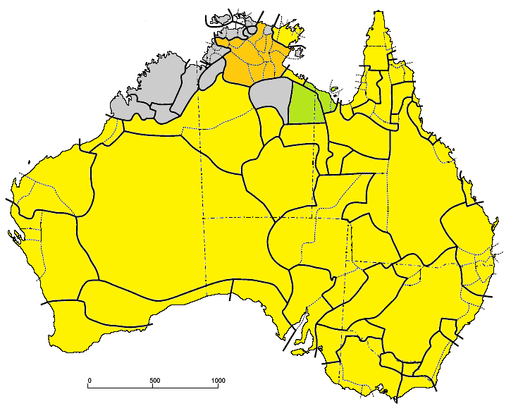 Map of Pama-Nyungan languages (Yellow), Garawa/Tankic (Green), Gunwinjguan (Orange)